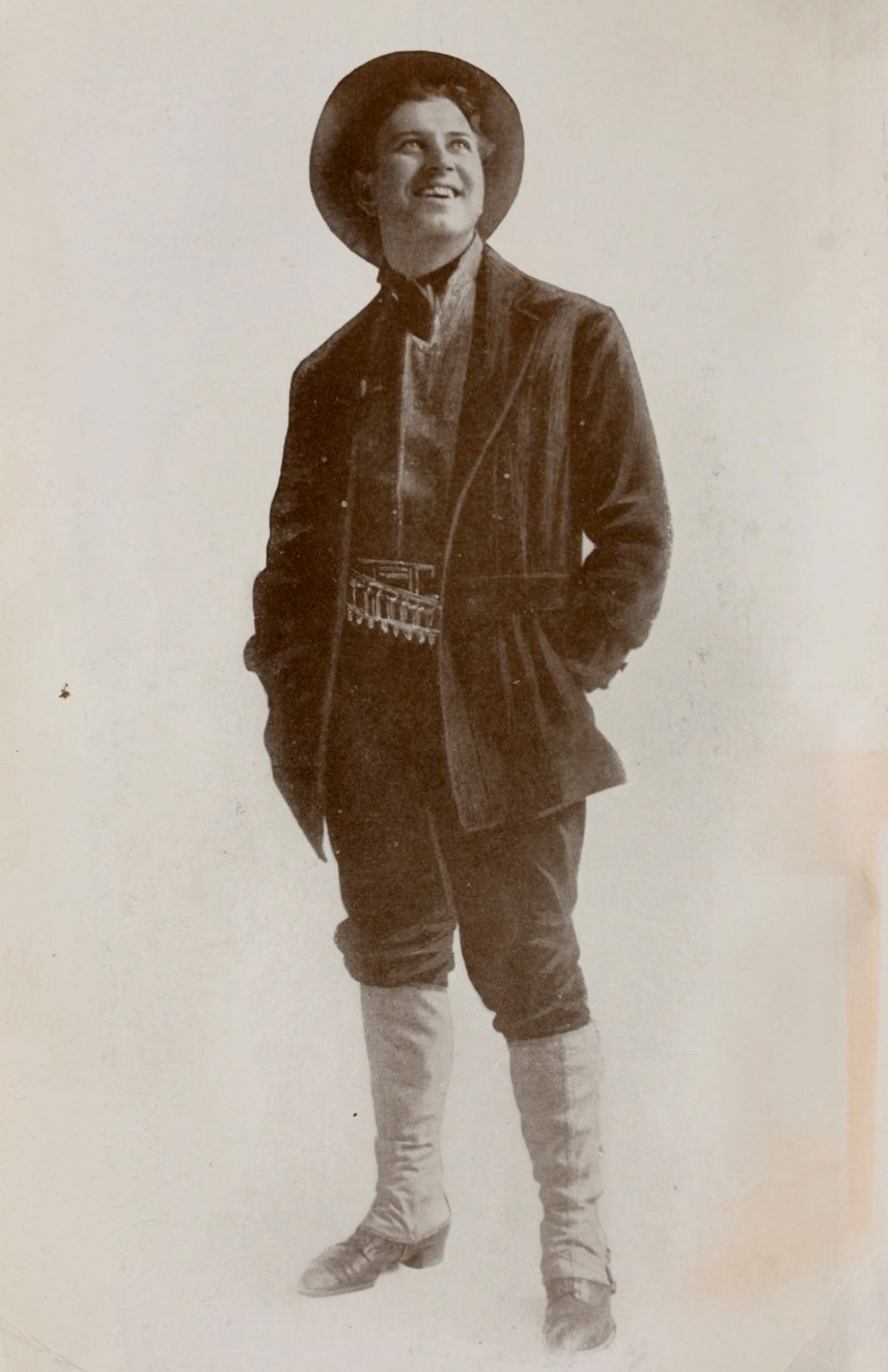 John Ince, also known as John E. Ince, (August 29, 1878 – April 10, 1947) was an American stage and motion pictures actor, a film director, and the eldest brother of Thomas and Ralph Ince. This is a publicity image published in a magazine.